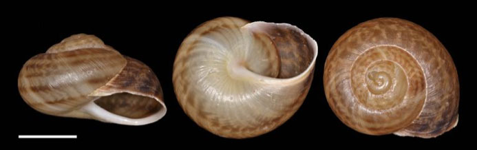 Composition of the 3 main views of the shell of Allognathus campanyonii pythiusensis. Locality: Na Plana, Ses Bledes (Eivissa)